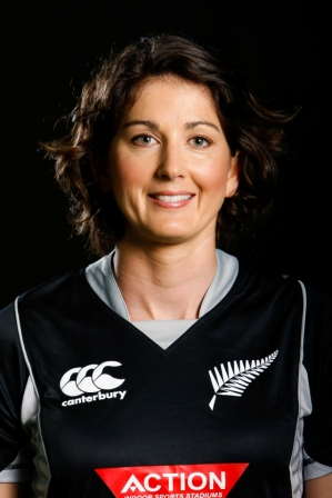 Picture of Nicola Browne